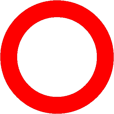 Logo of the O-Jolle Class